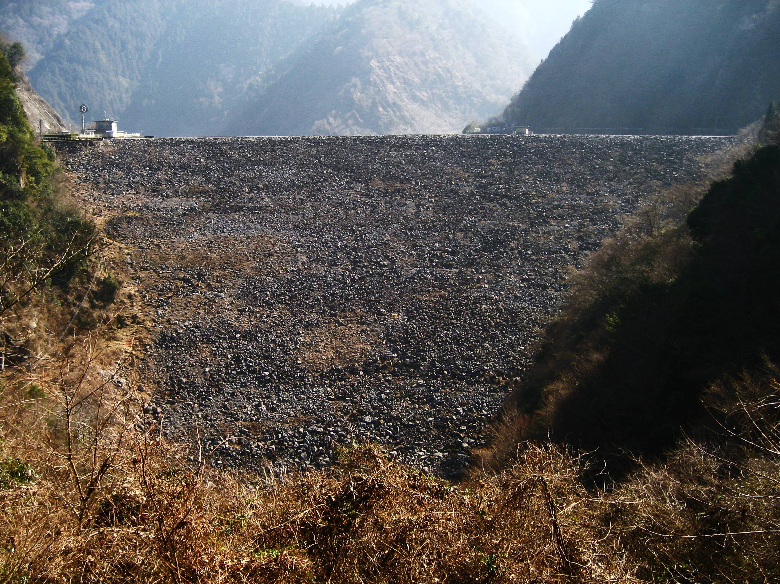 Misakubo Dam {水窪ダム (静岡県)} is a dam in Hamamatsu city, Shizuoka prefecture, Japan.